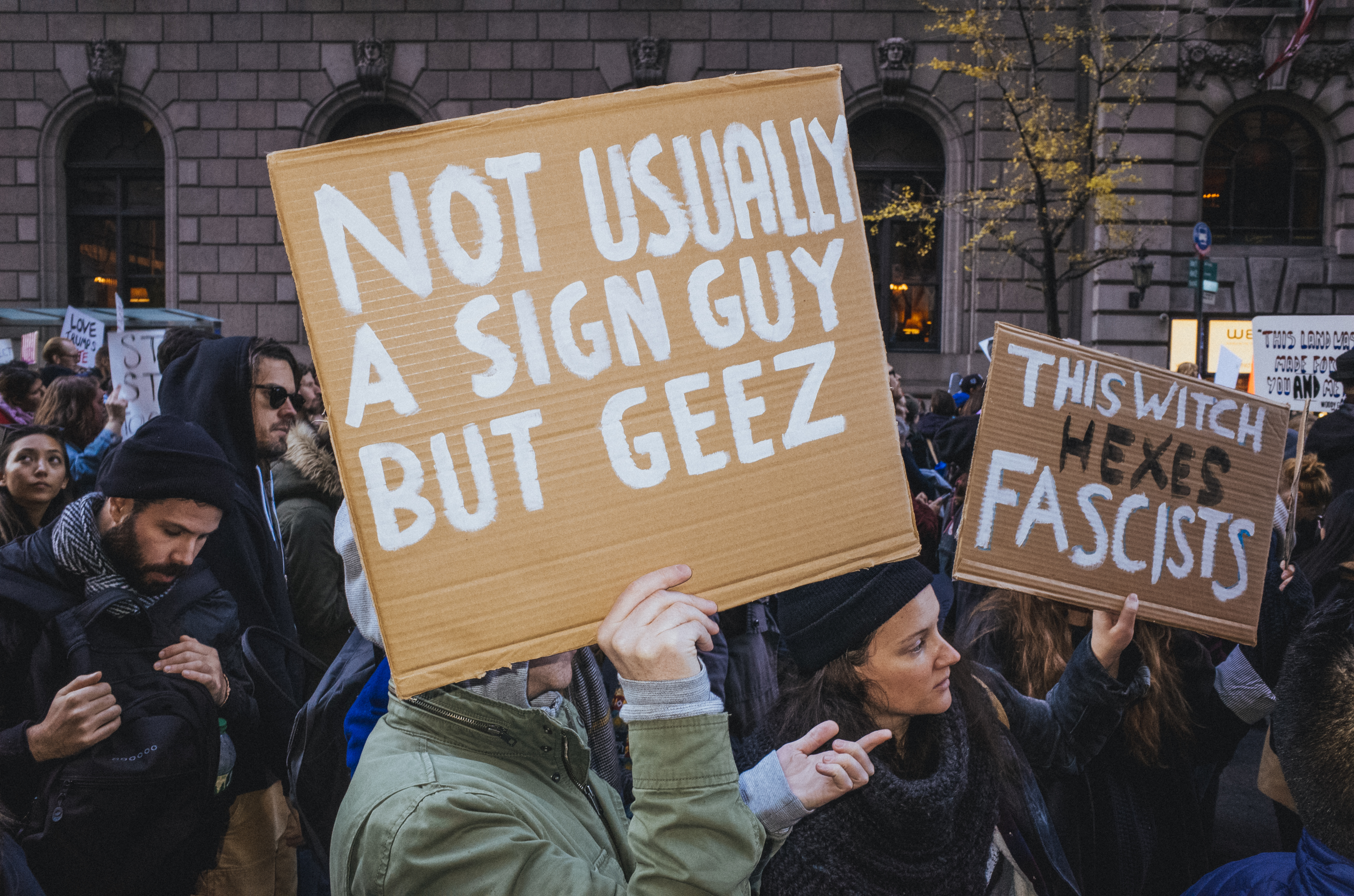 New York City, 11/12/2016